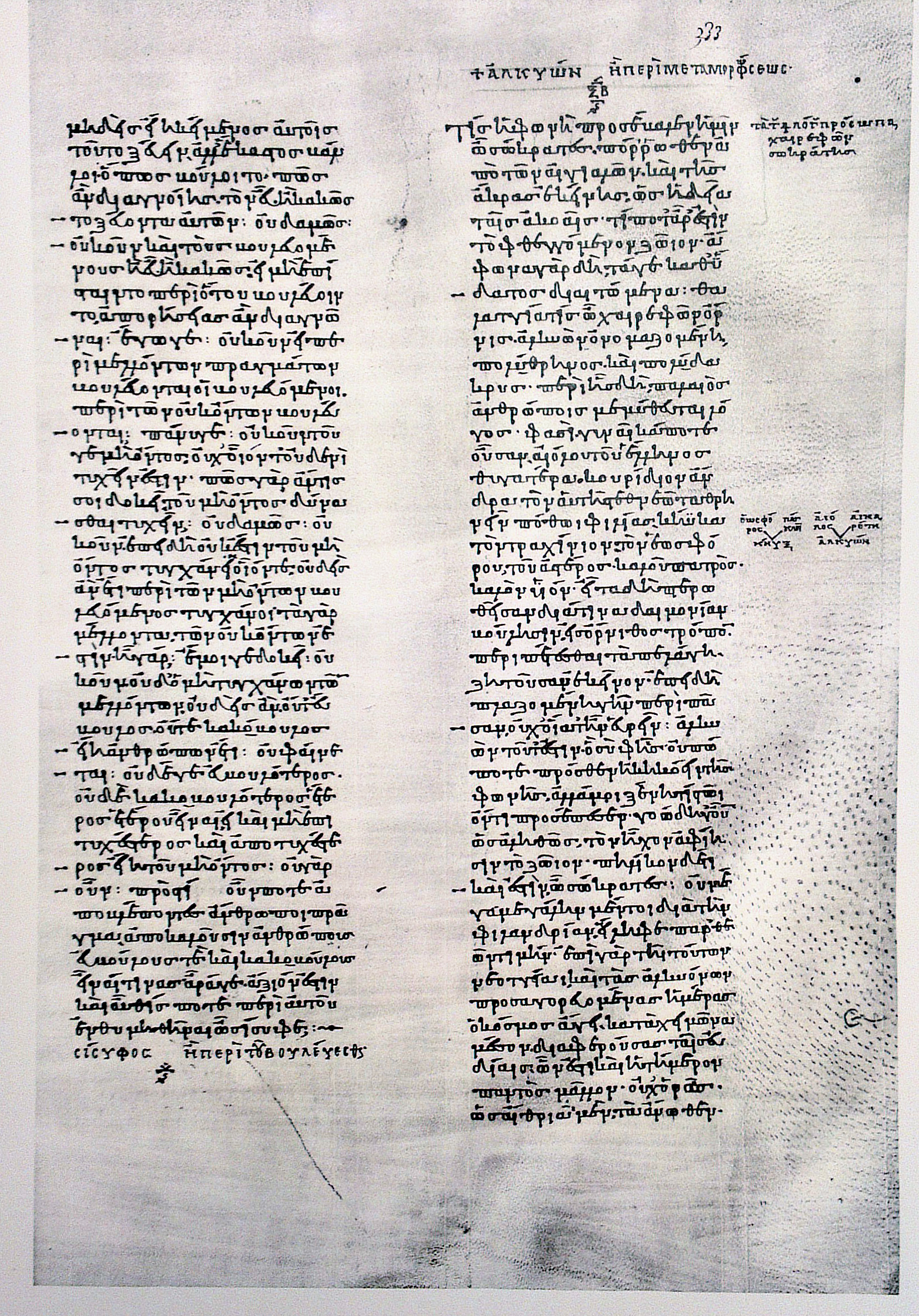 Page of the Codex Parisinus graecus 1807. Dialogue Halkyon.